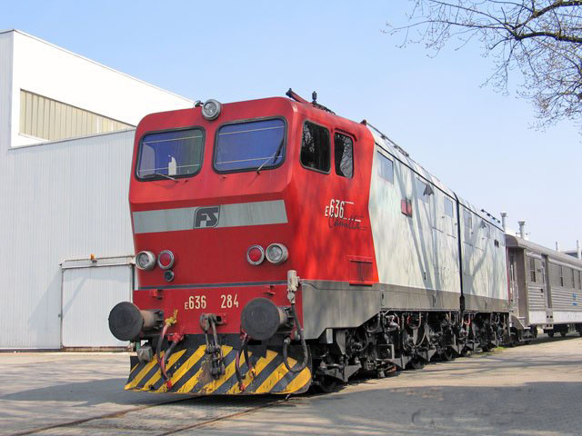 The Italian locomotive E.636.284 (Camilla) in a photo under the GNU Free Documentation License by Mauro Comiotto.